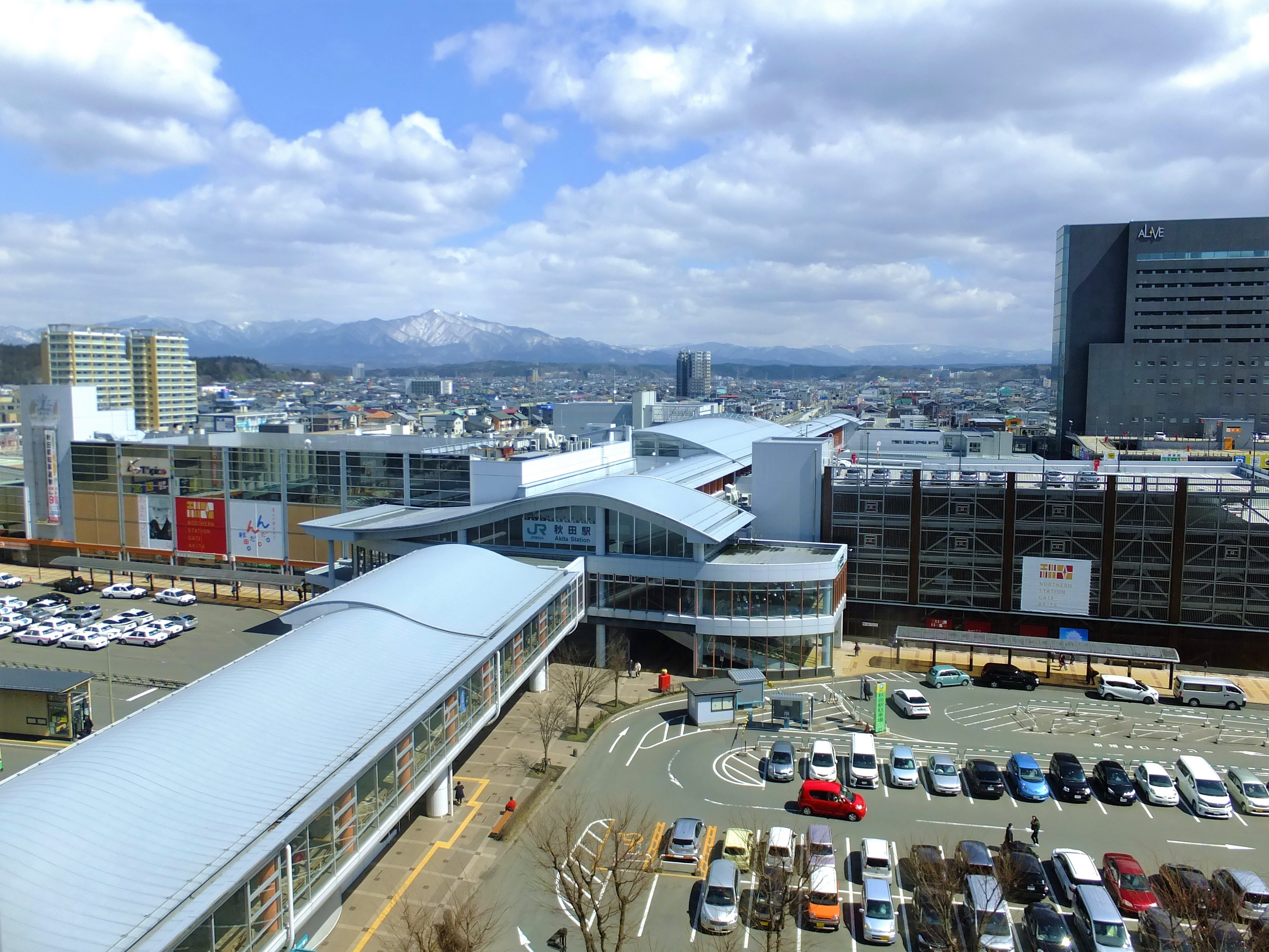 Akita Station operated by the East Japan Railway